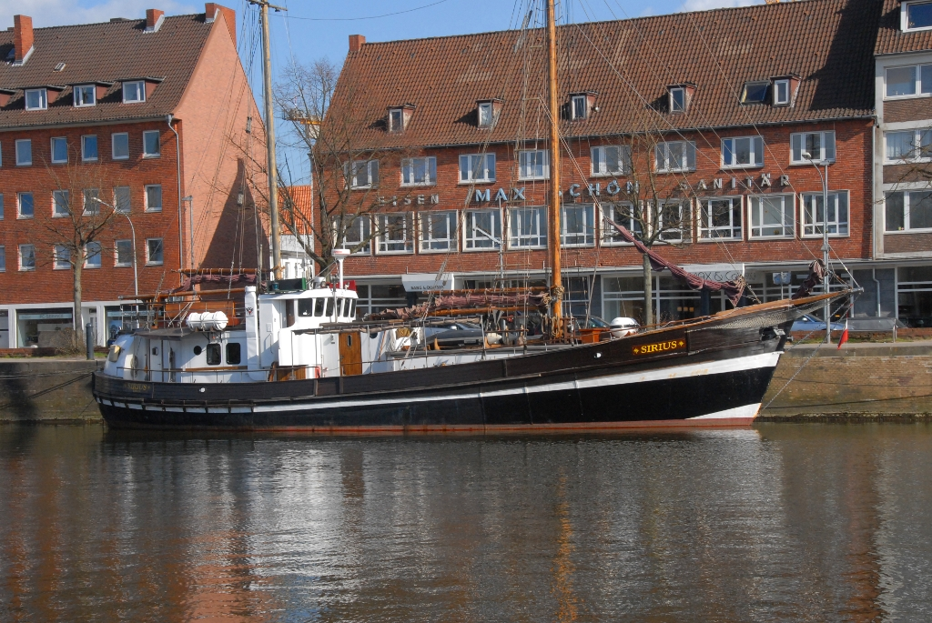 auxilary gaff ketch SIRIUS (the former "Kriegsfischkutter" KFK 124) at her port of registry, the "Holstenhafen" in Lübeck, Germany